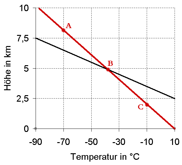 Unstable atmospheric stratification